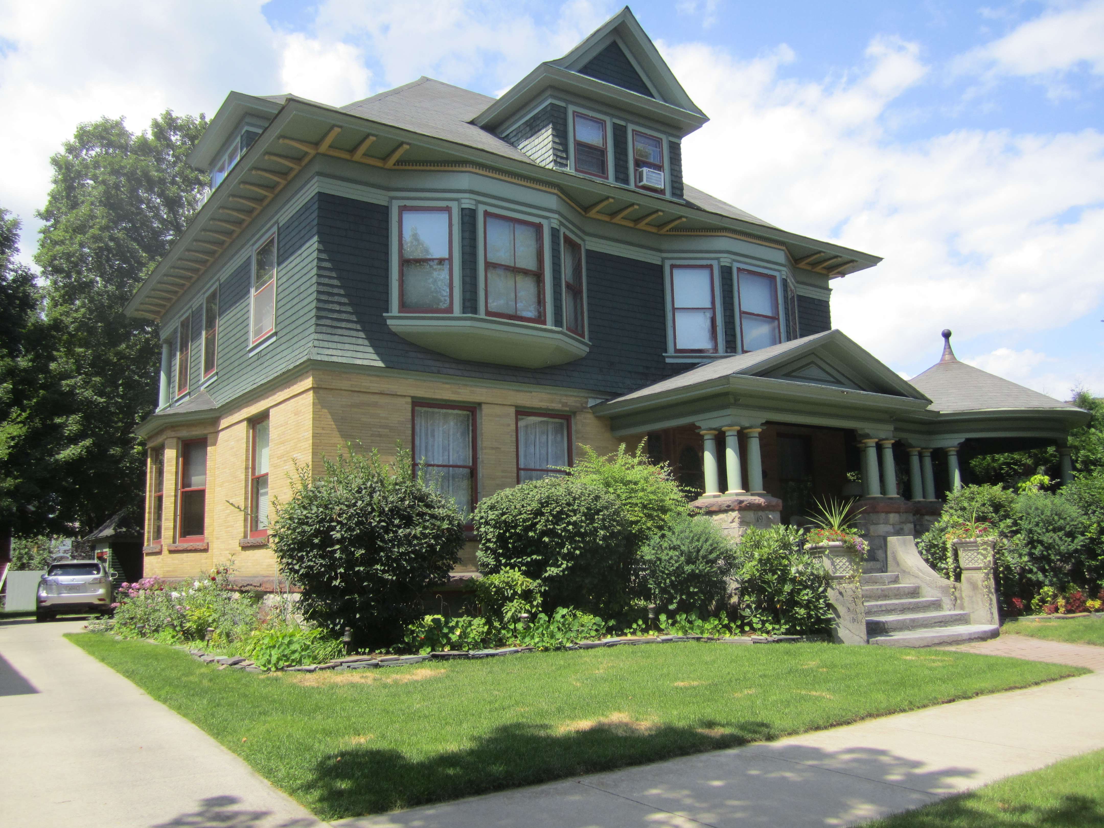 19 Marion Place, Saratoga Springs NY. "Willis J.. Kendrick House", designed by Newton Brezee (1899)